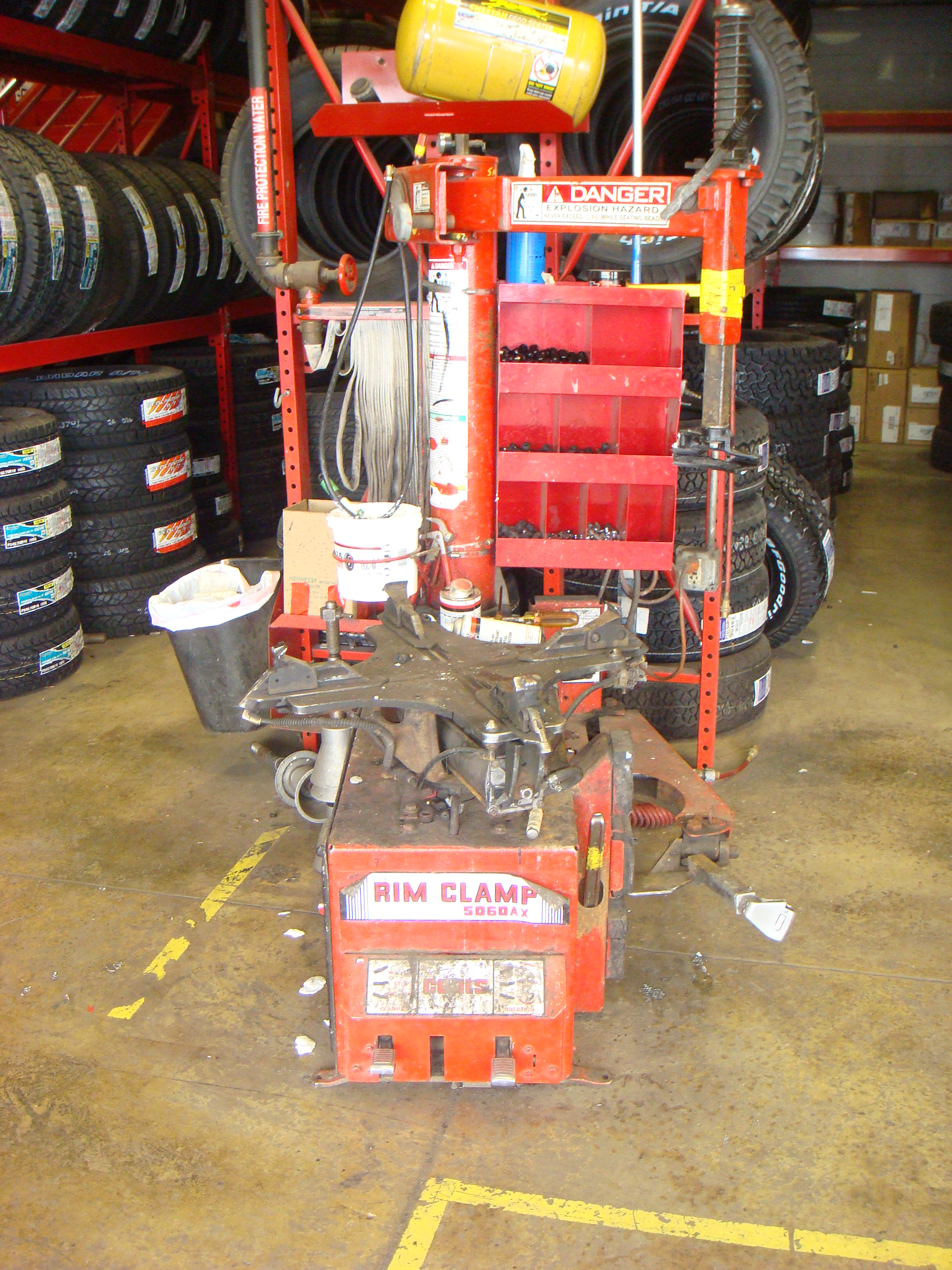 Coats Rim Clamp tire changer in a shop.